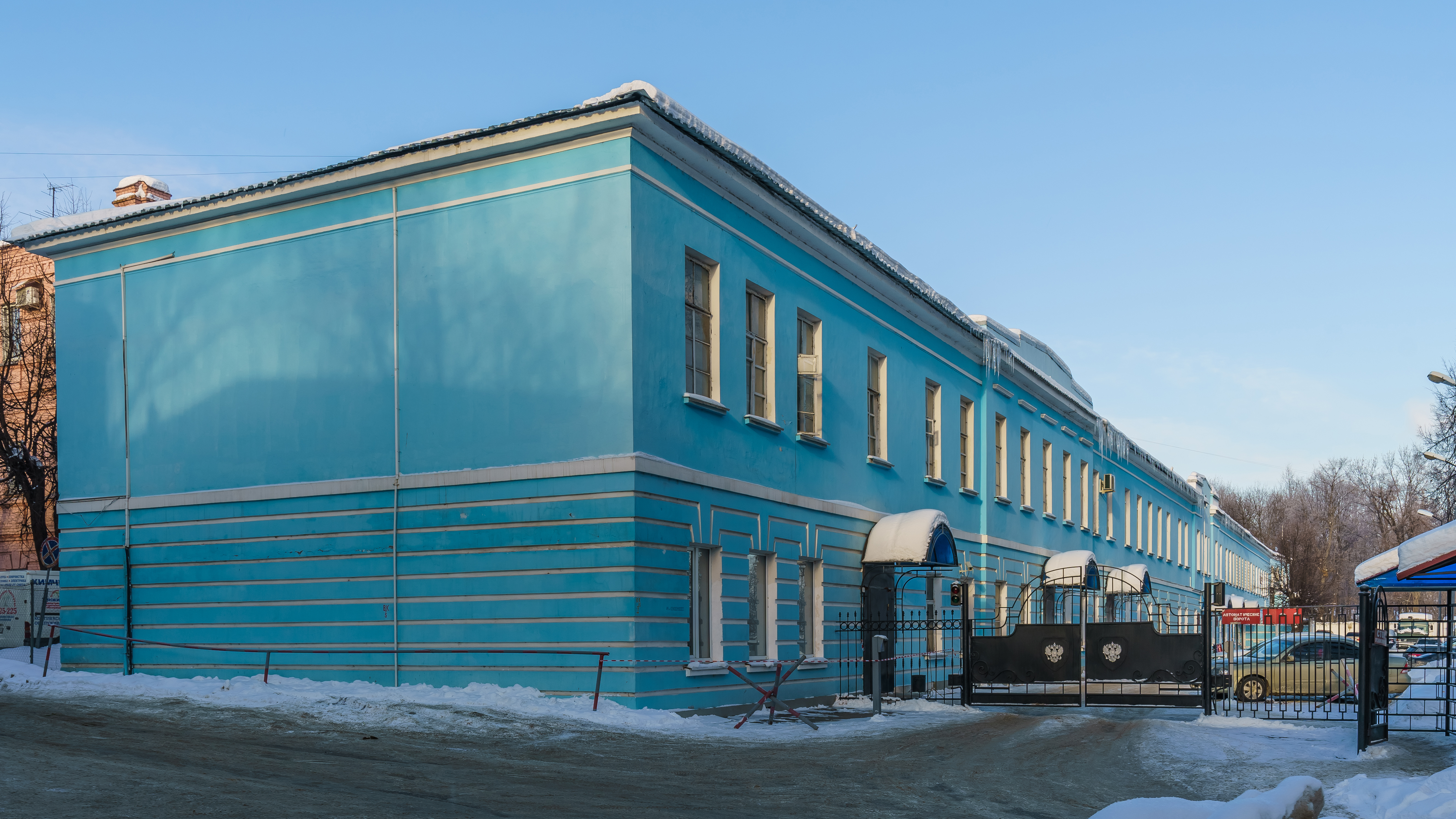 Vladimir Central Prison (view from the street) in Vladimir, Russia